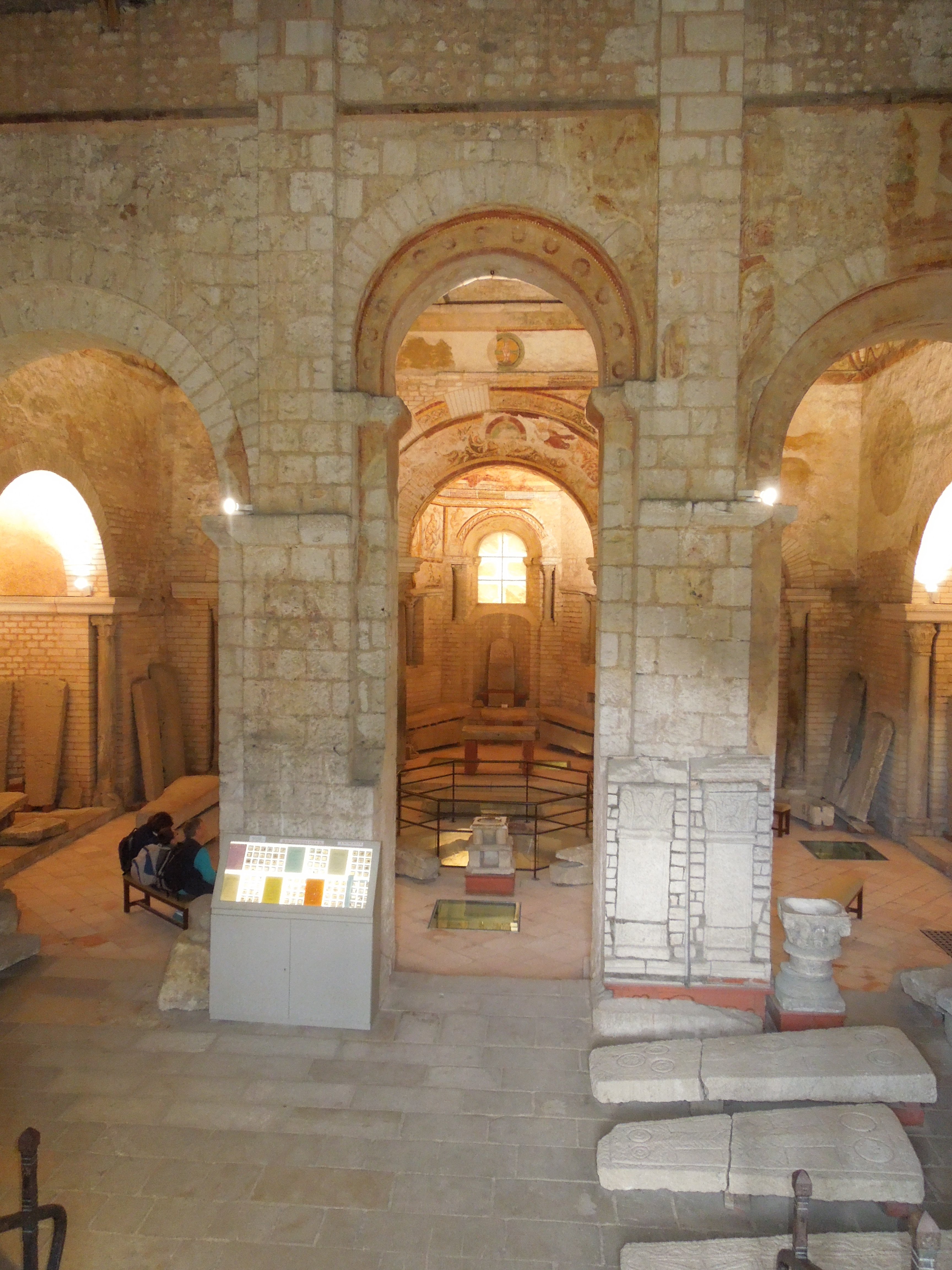 Poitiers, Babtistry St. Jean, interior